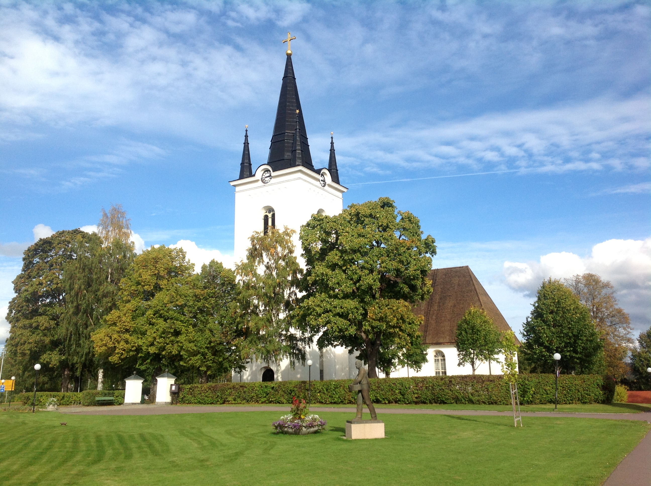 Church of Svärdsjö in the diocese of Västerås.